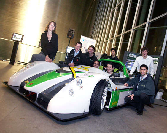 The Racing Green Endurance Team and the SRZero